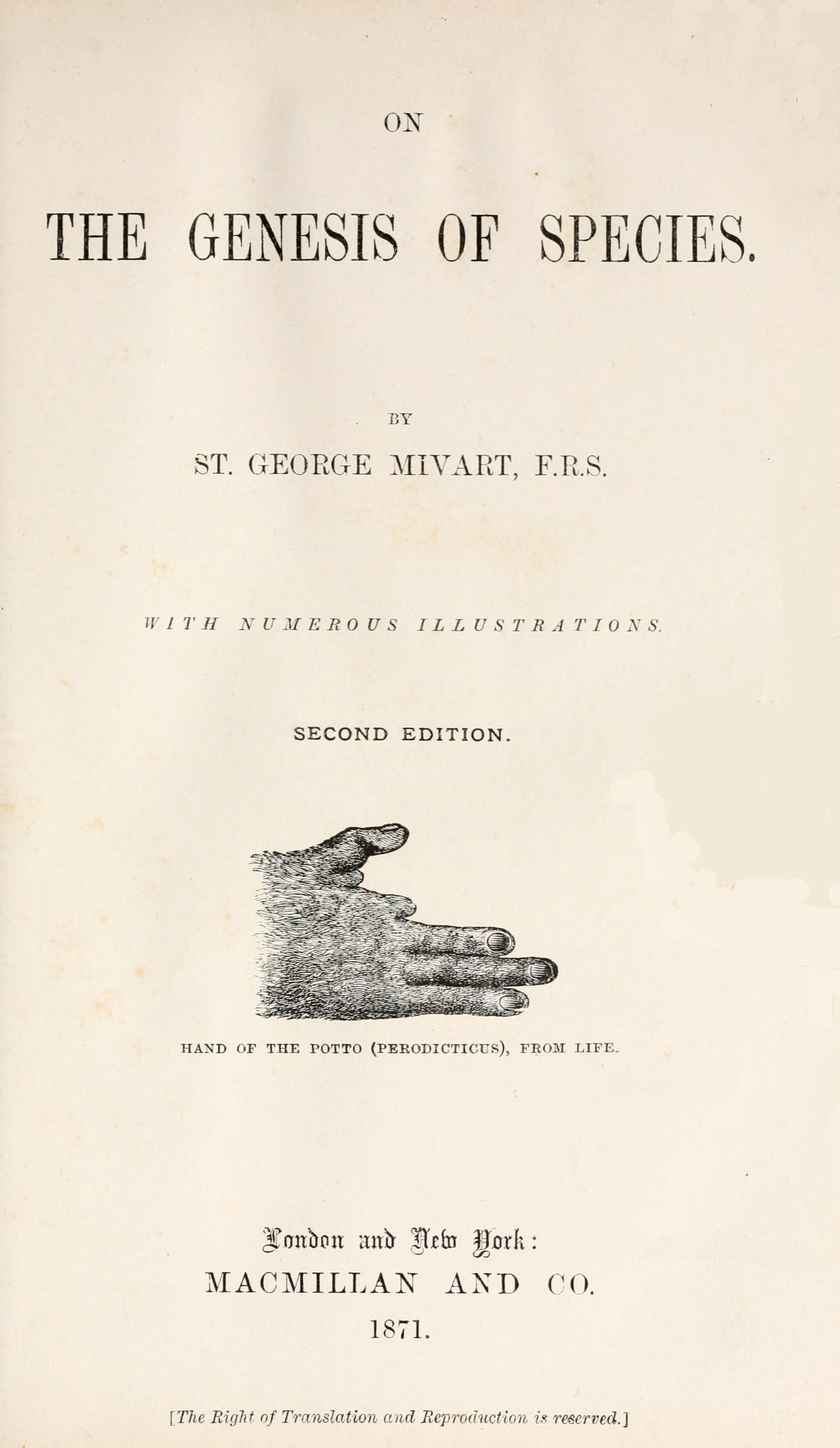 Titlepage of On the Genesis of Species